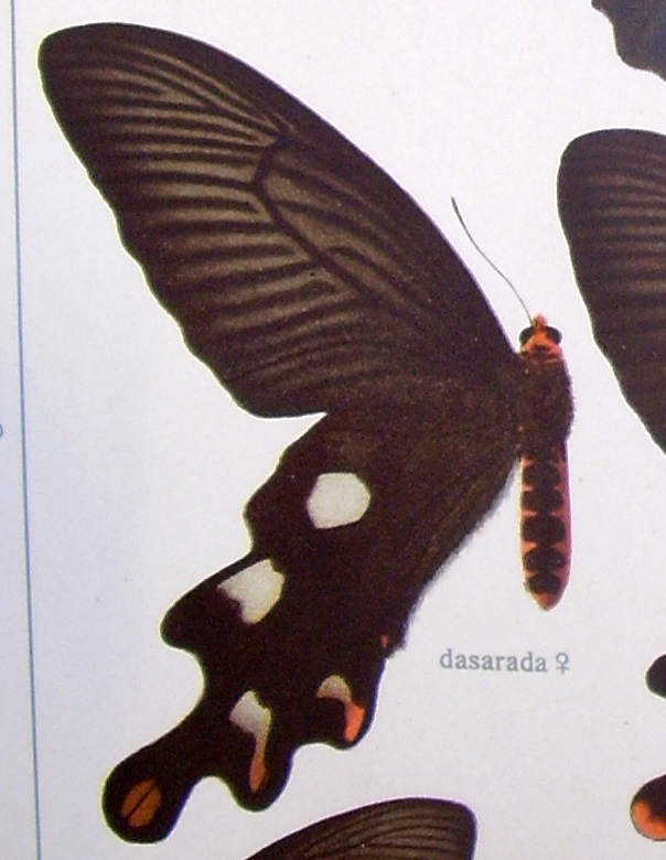 Great Windmill, female, upperwing